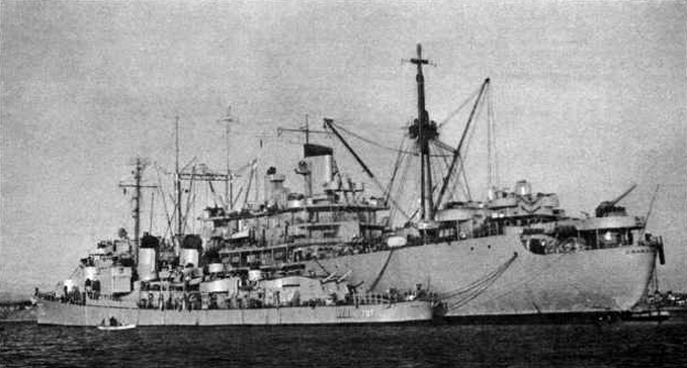 The U.S. Navy destroyer USS Soley (DD-707) alongside the destroyer tender USS Grand Canyon (AD-28) at Augusta Bay, Sicily (Italy) on 16 December 1950.